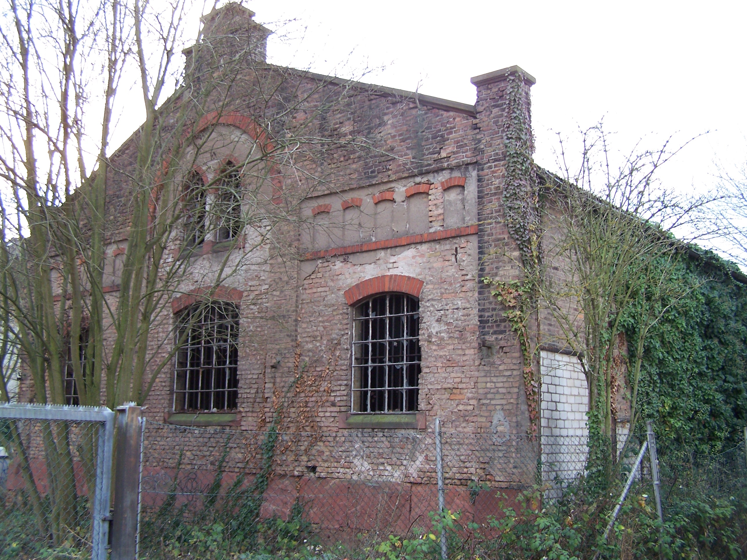 Backside of the former tram depot in Frankfurt-Eschersheim